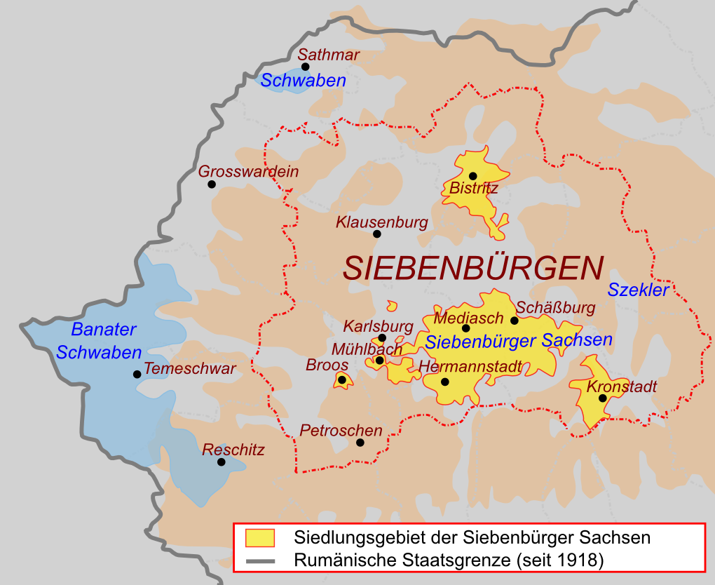 Settlement areas of the Transylvanian Saxons